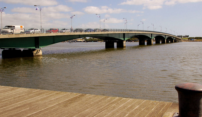 Wexford Bridge 480 metre bridge of seven spans across the River Slaney. Rebuilt in 1997 to replace the previous bridge of 1959.